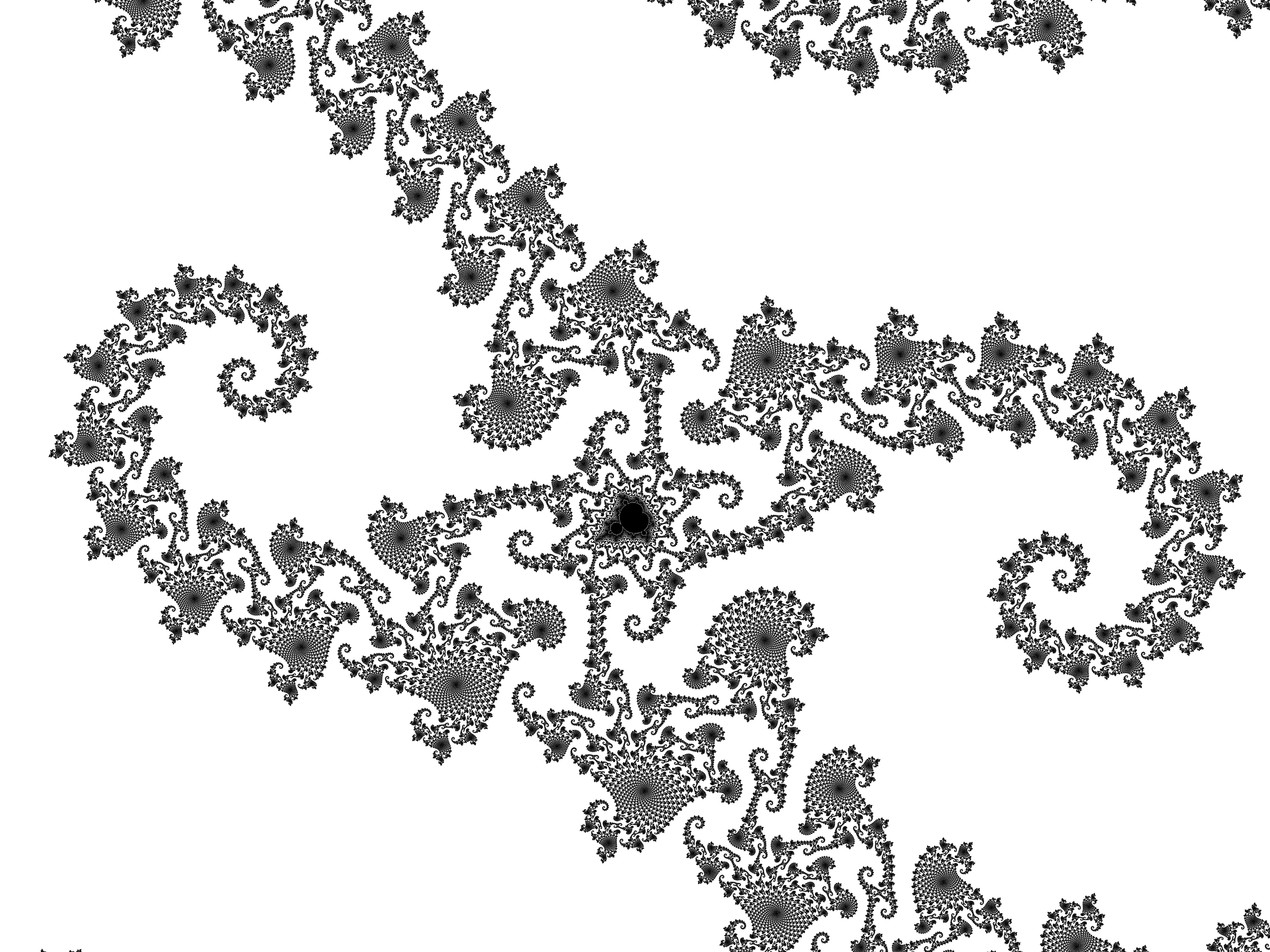 Pixels in this image are rendered in black if the Distance Estimate formula determines that they are close to the Mandelbrot set. The image is centered at -0.743642,0.13183i at a real width of 0.000116